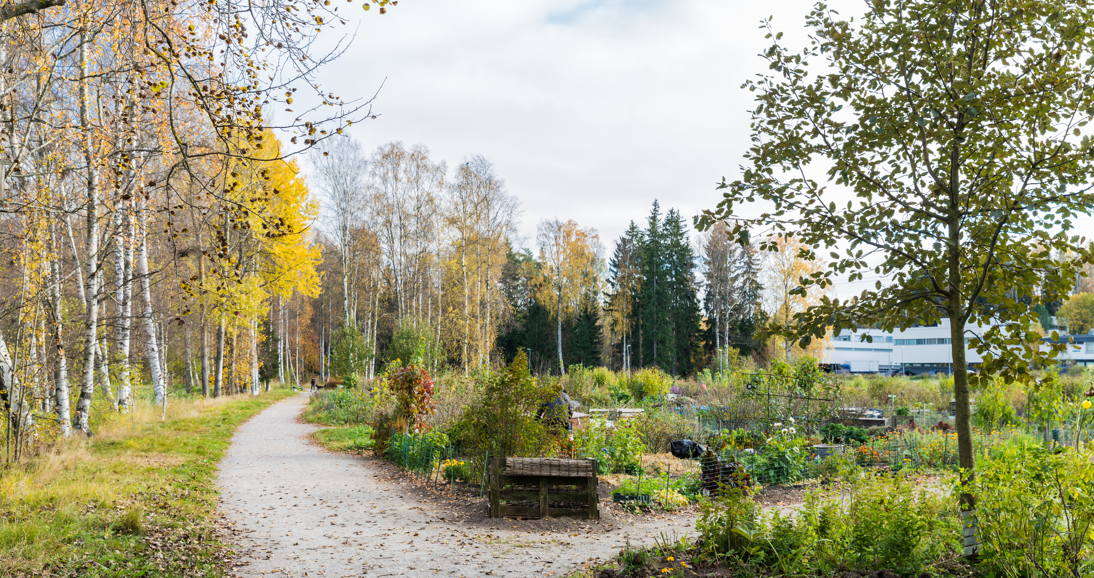 Aino Ackté Park